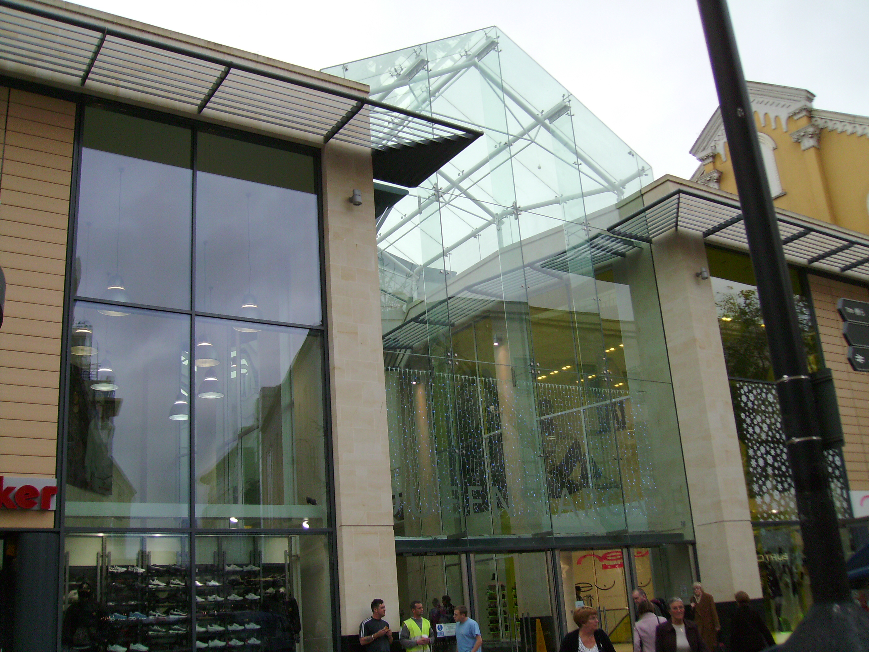 Queen's Arcade, Queen Street entrance, Cardiff, Wales